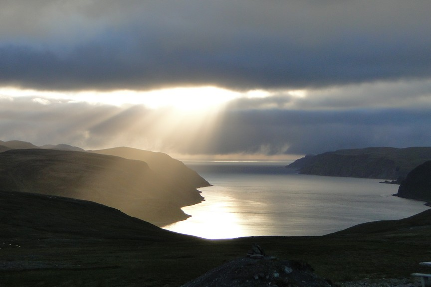 Nord Cape